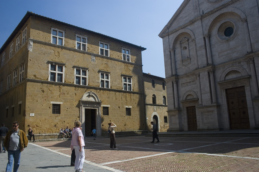 see above